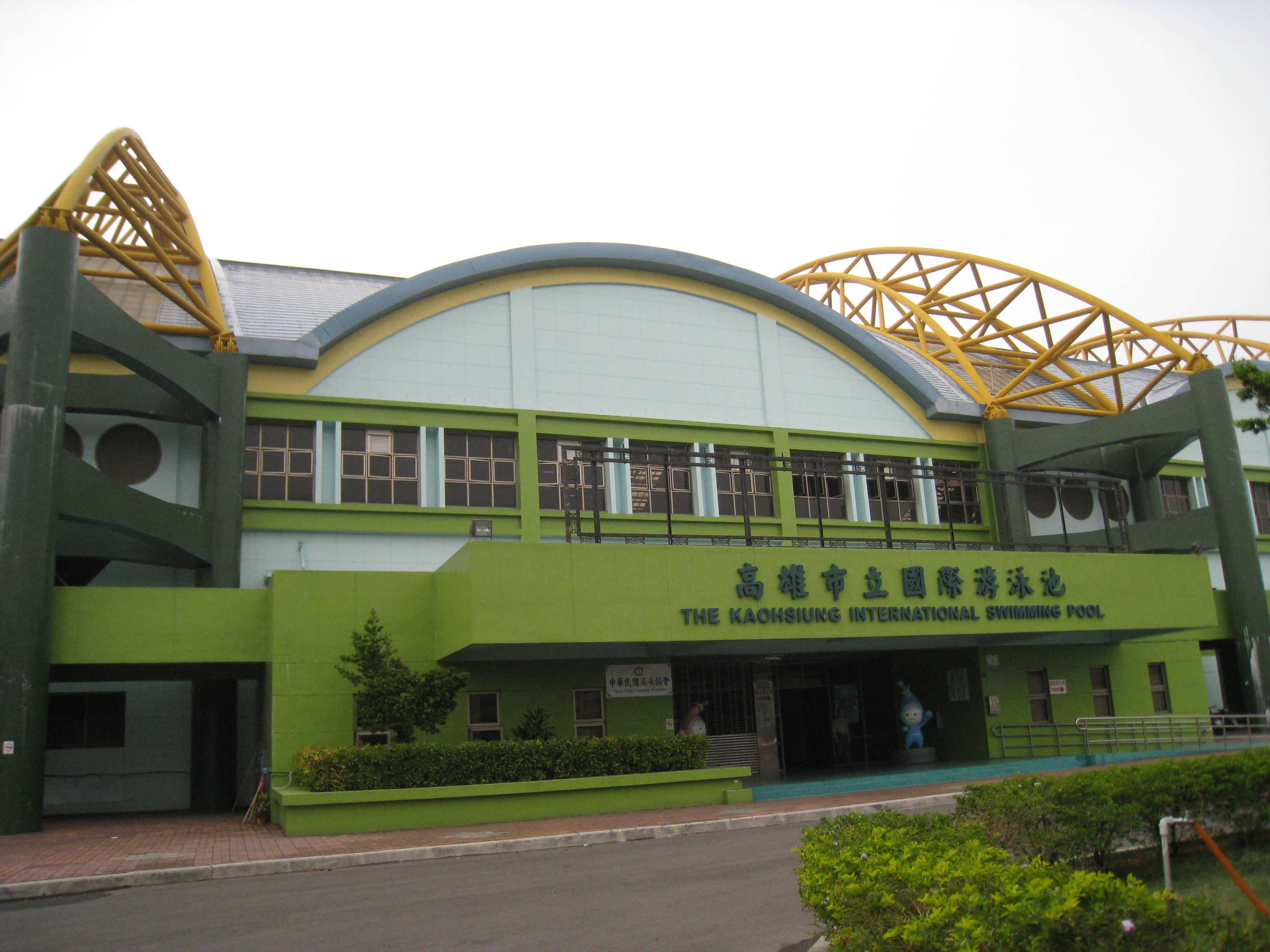 Kaohsiung International Swimming Pool.